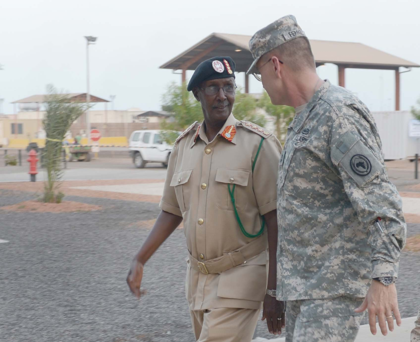 Gen. Dahir Adan Elmi, the chief of defense for Somali armed forces, and Maj. Gen. Terry Ferrell, Commander, Combined Joint Task Force-Horn of Africa, walk together into the galley at Camp Lemonnier, Djibouti, May 29, 2013. The generals met to improve cooperation and develop a foundation for a more formalized military-to-military relationship between the two countries.